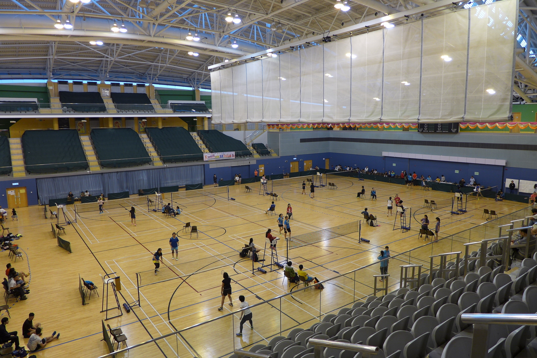 Ma On Shan Sports Centre Multi Purpose Hall